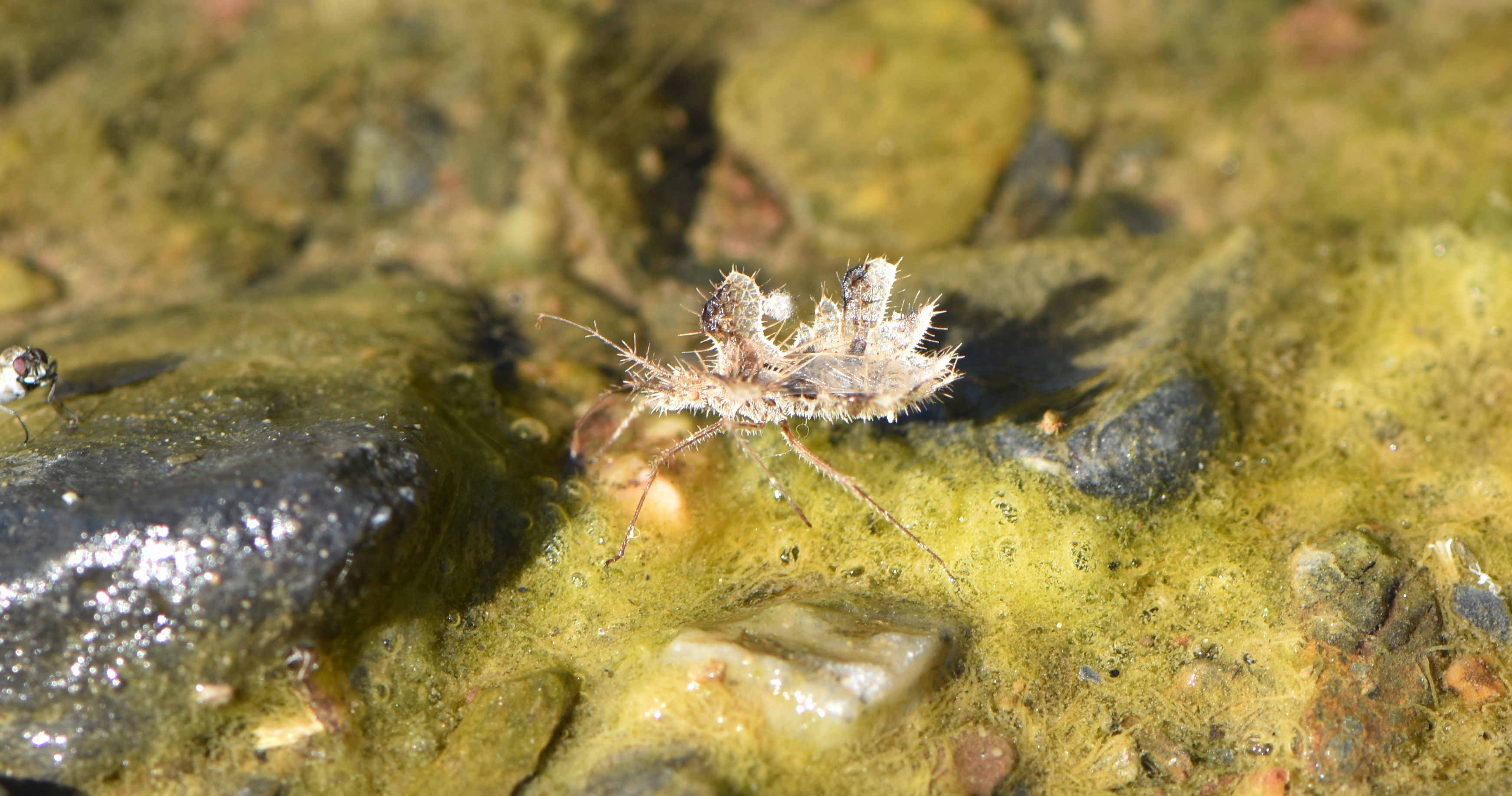 Image of Phyllomorpha laciniata